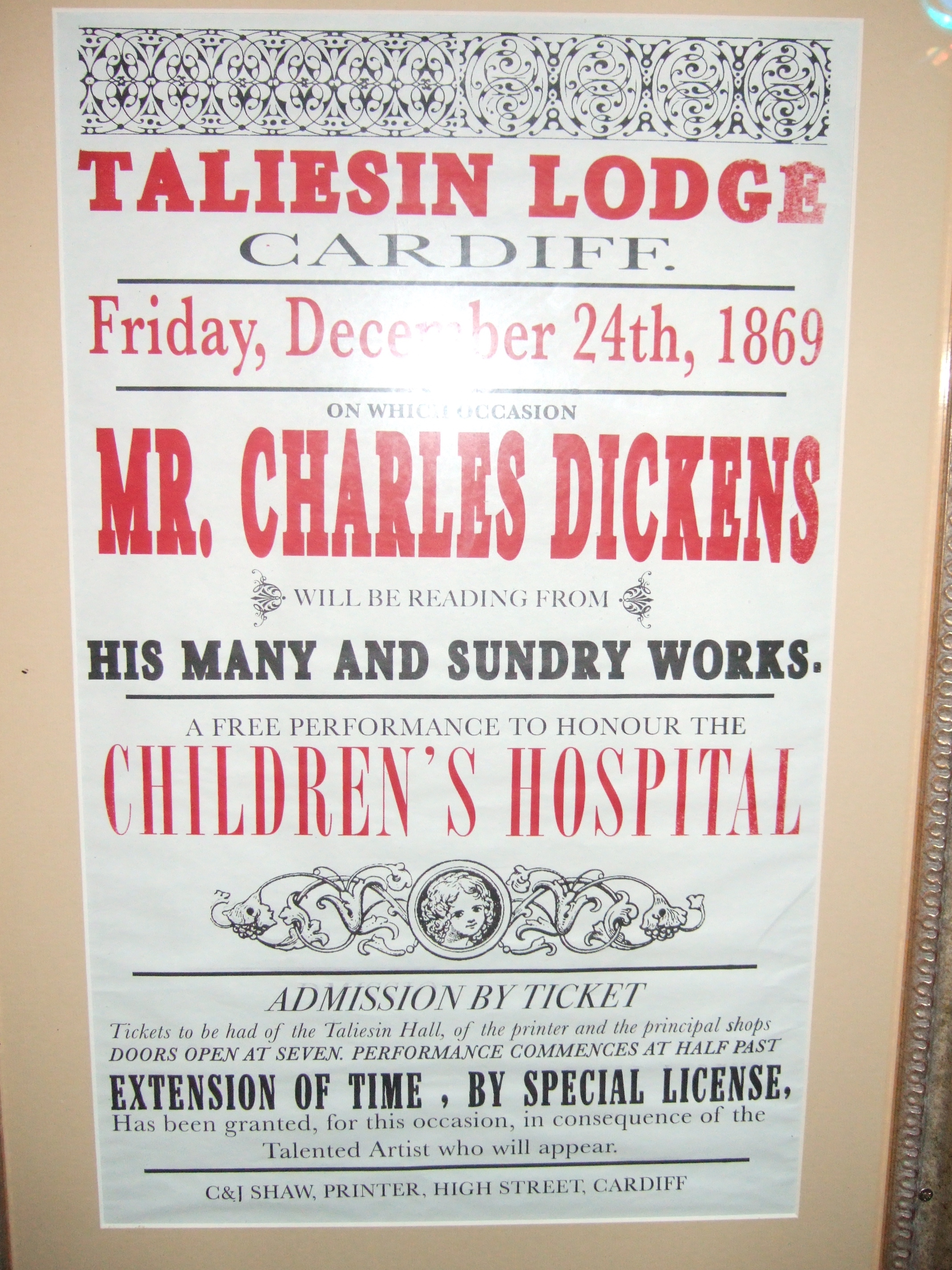 Poster for Charles Dickens' reading from his books Doctor Who Experience